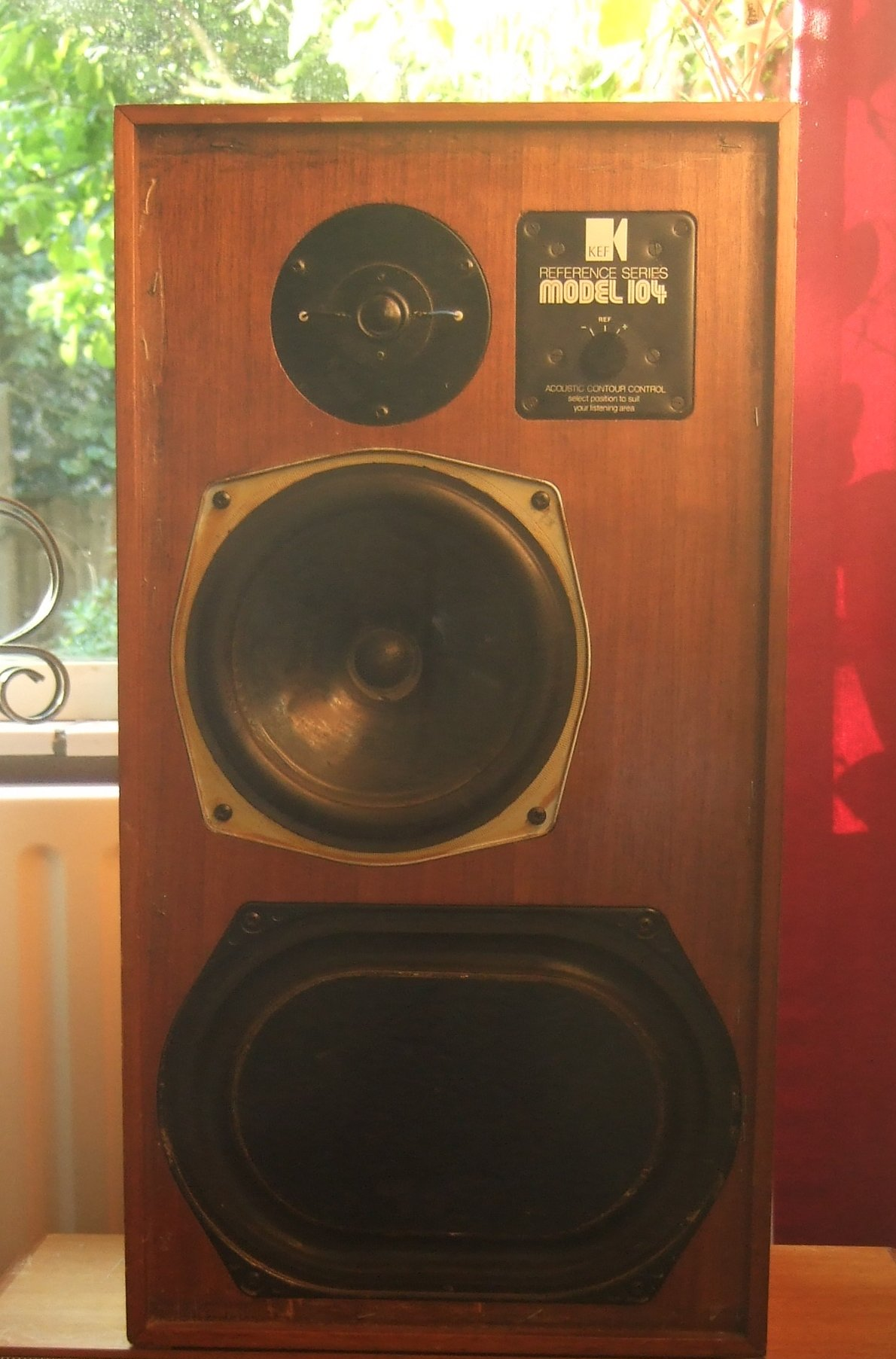 Braun L710 & Kef 104 Ref. connected to get the proper sound ;-) In Combination I've got me some nice midtones! Bass and Treble is not bad either ;-) !